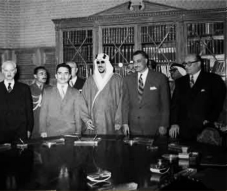 The signing of the Arab Defense Pact between Egypt, Saudi Arabia, Syria and Jordan in Cairo, Egypt. From left to right at the forefront: Jordanian Prime Minister Sulayman al-Nabulsi, Jordanian King Hussein, Saudi King Saud, Egyptian President Gamal Abdel Nasser and Syrian Prime Minister Sabri al-Asali